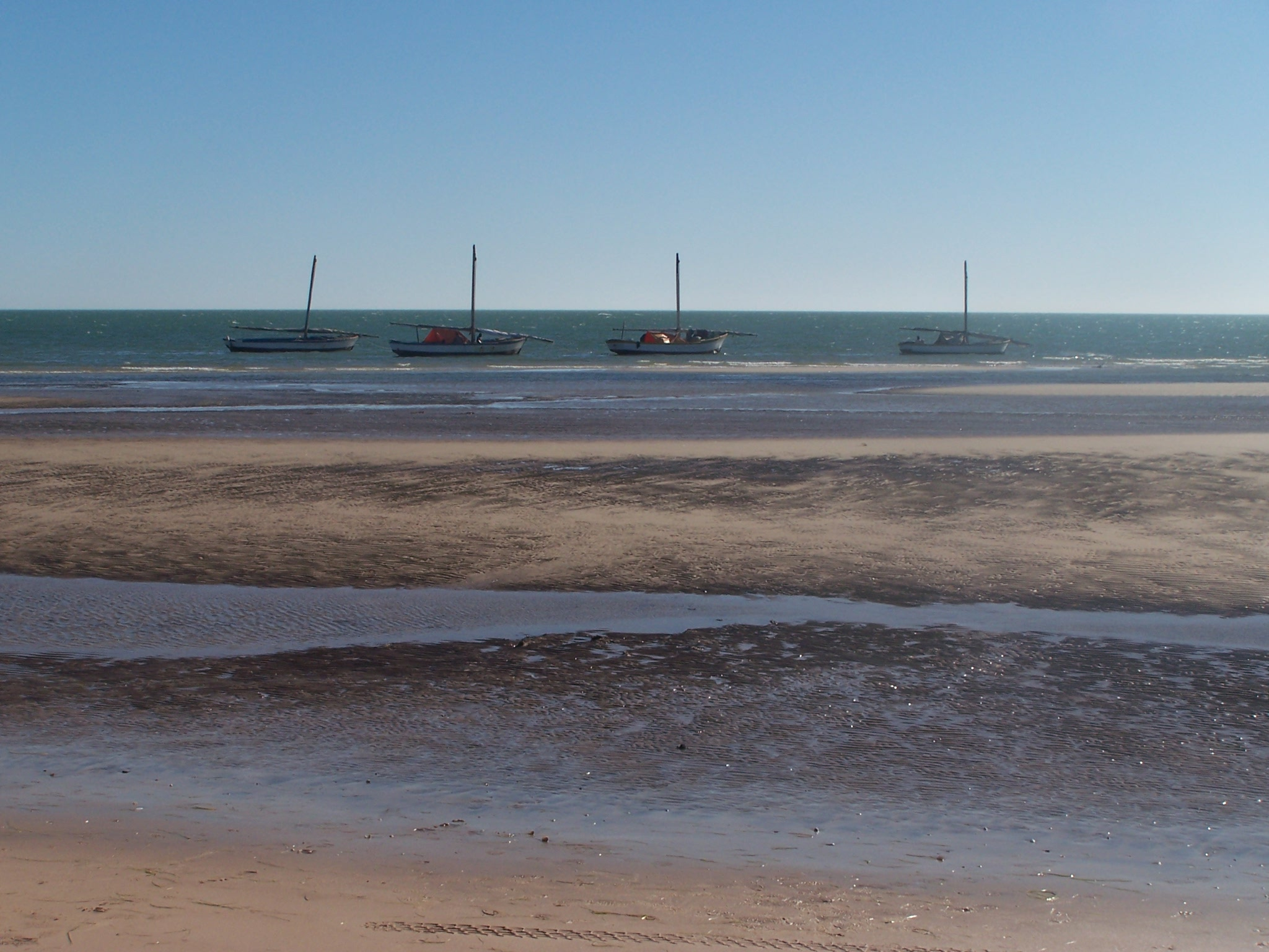 Fishing ships at Banc d'Arguin N.P.